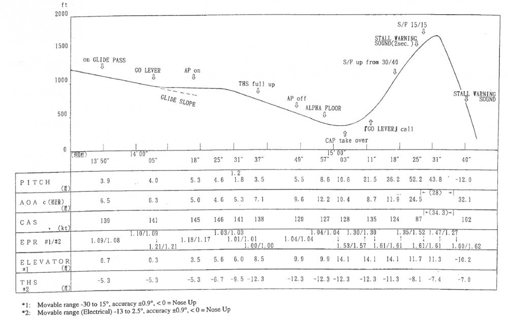 Flight profile of China Airlines flight 140